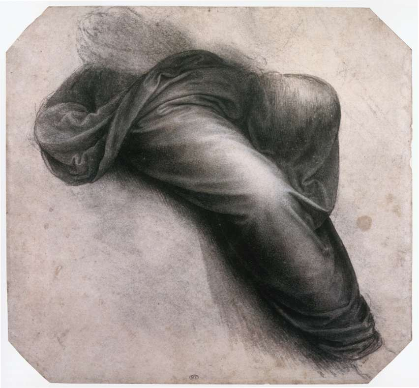 LEONARDO da Vinci Study for Madonna and Child with St Anne Black chalk, wash and white highlights on paper, 230 x 245 mm Musée du Louvre, Paris